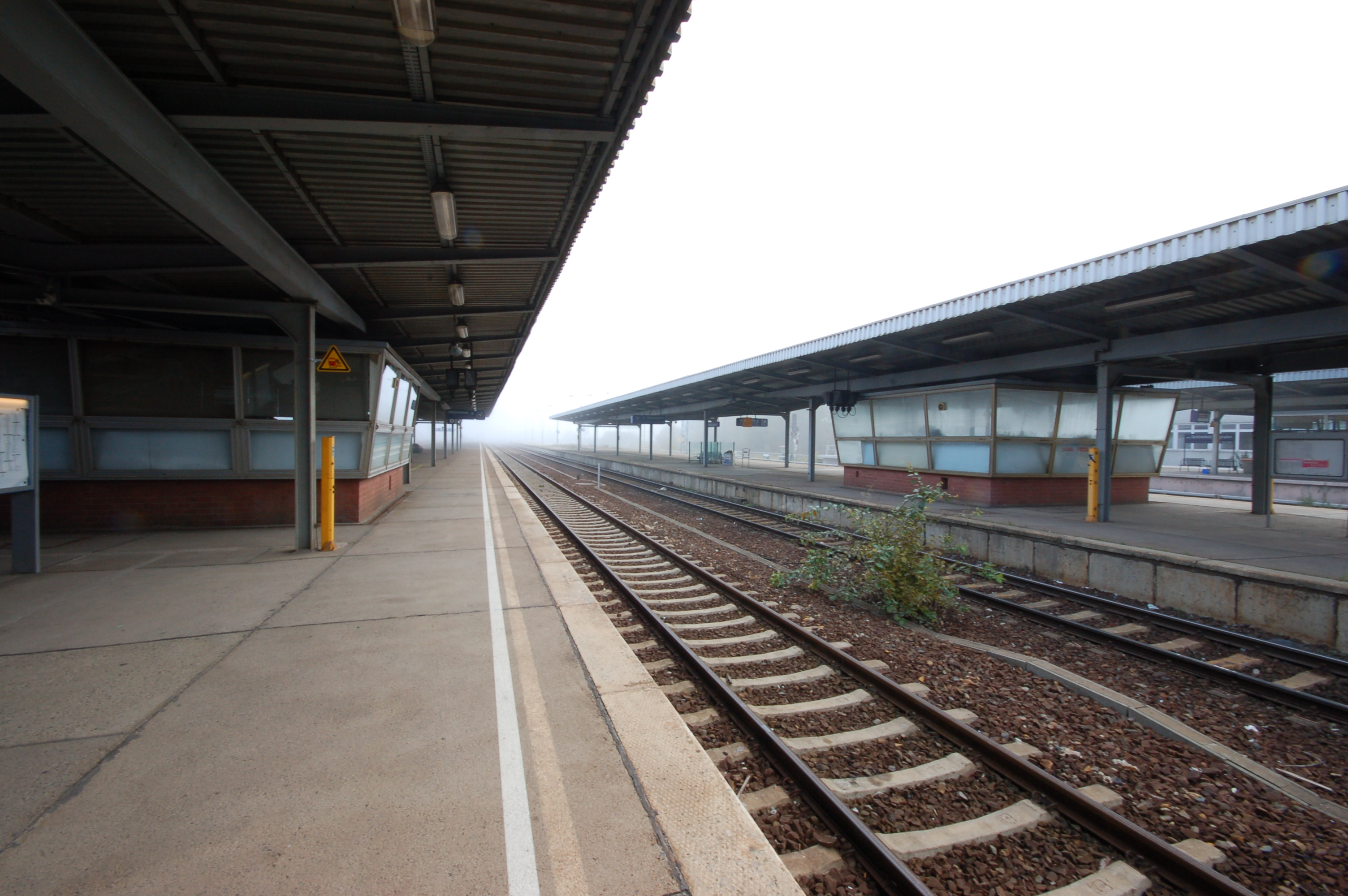 platforms of Berlin's train station "Flughafen Schönefeld"